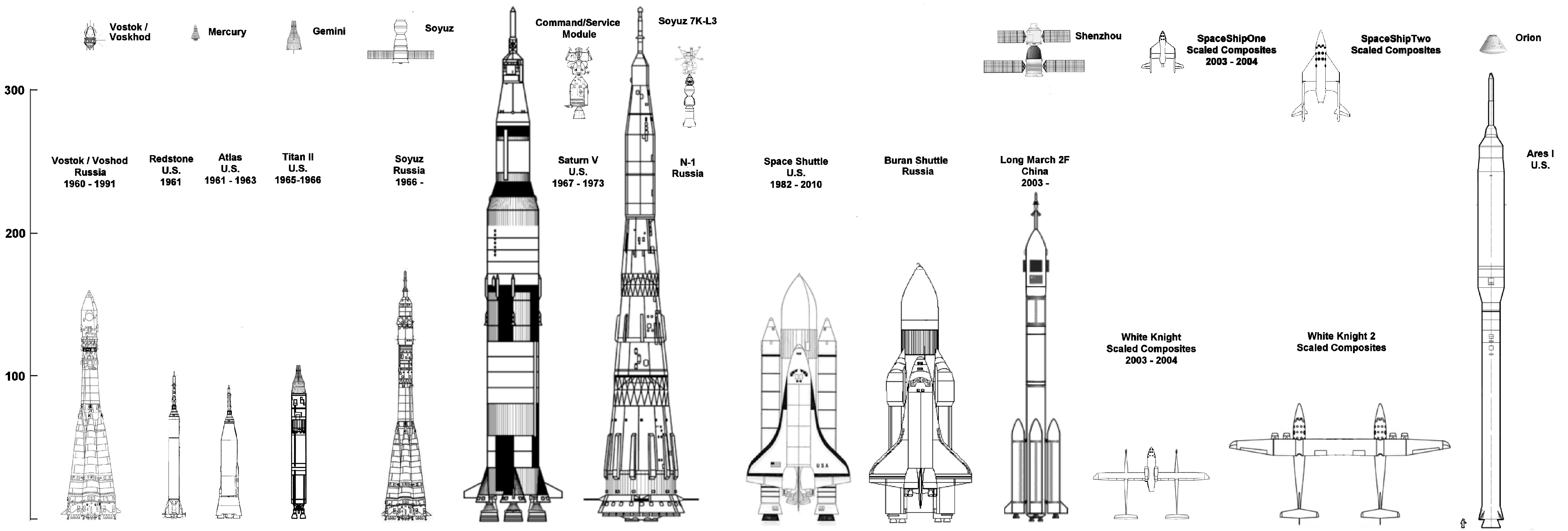 This image is a scale comparison of the most notable manned spacecraft created, including spacecraft that were abandoned prior to achieving manned spaceflight. Names, manufacturers, and dates of operation (according to Wikipedia) are included, where applicable.